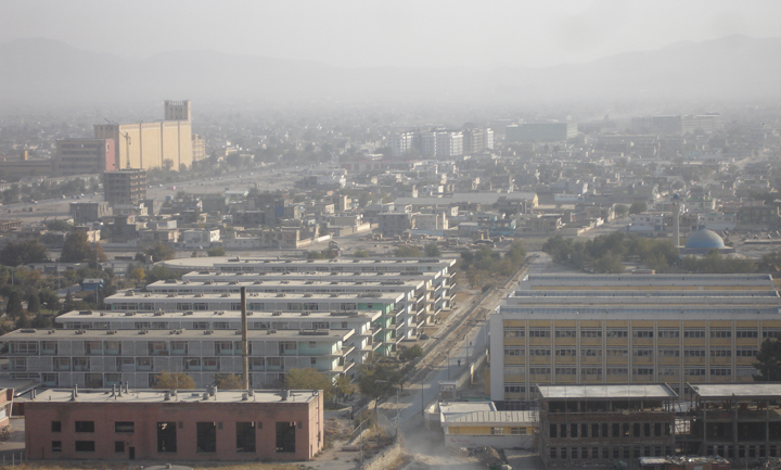 View of Kabul City